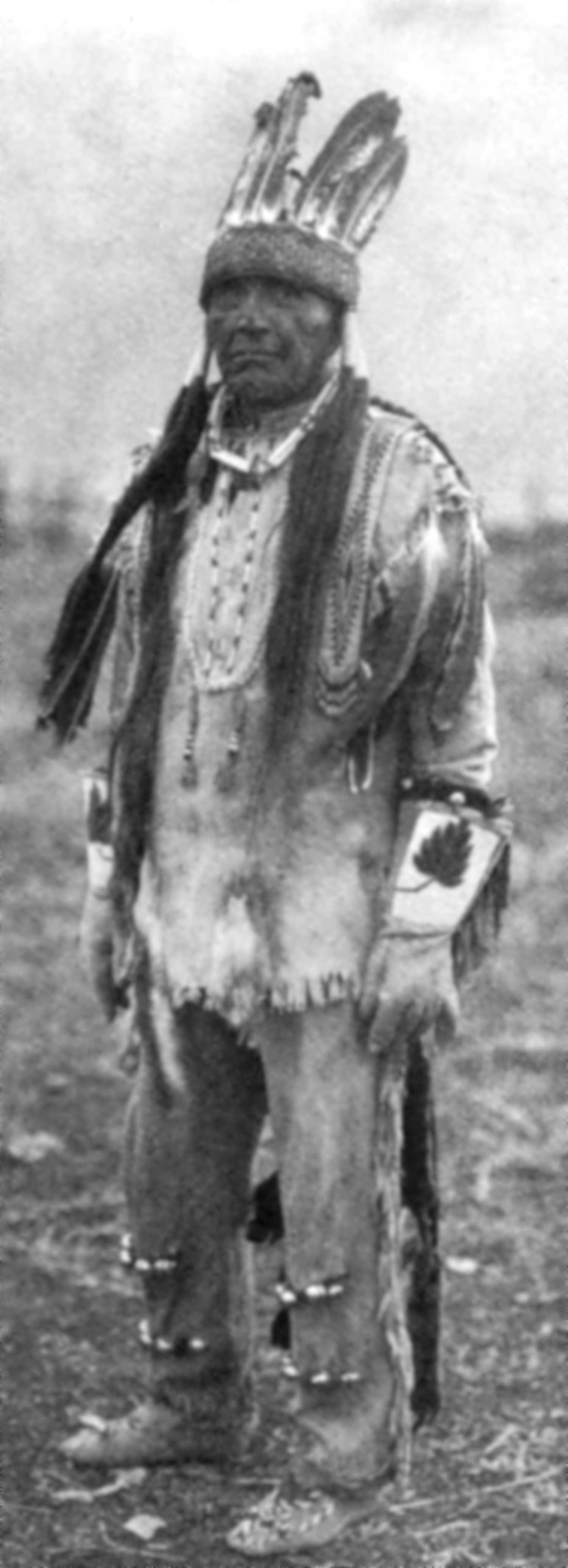 klamath man in costume